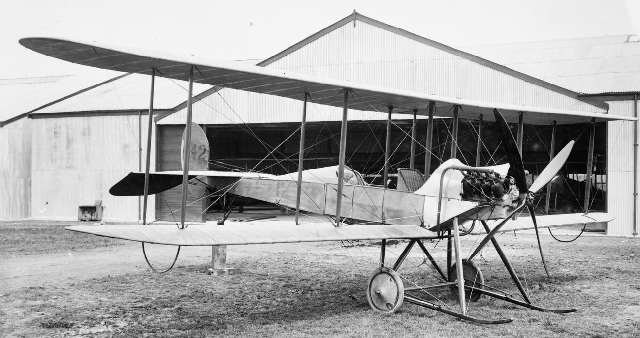 Royal Aircraft Factory B.E.2 (early version) two-seat general purpose biplane of the No. 2 Squadron, Royal Flying Corps. Montrose. Scotland. This aircraft was built at the Royal Aircraft Factory in June 1912 and was rebuilt with new wings in August 1912. In May 1913 it was on the strength of No. 2 Squadron RFC in Montrose. On the 27th May 1913 the upper wing collapsed in flight resulting in the aircraft crashing, killing the pilot, Lieutenant Desmond Arthur.